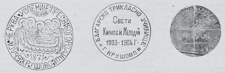 Krushevo Exarchate seals